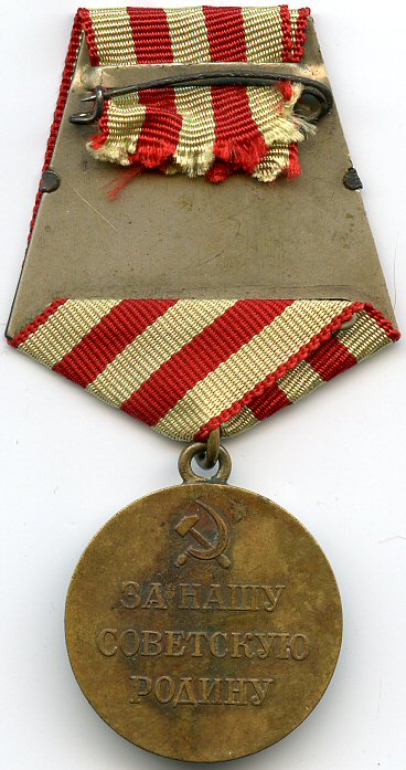 Reverse of the World War 2 Soviet campaign medal "For the Defence of Moscow" (1944) Unknown